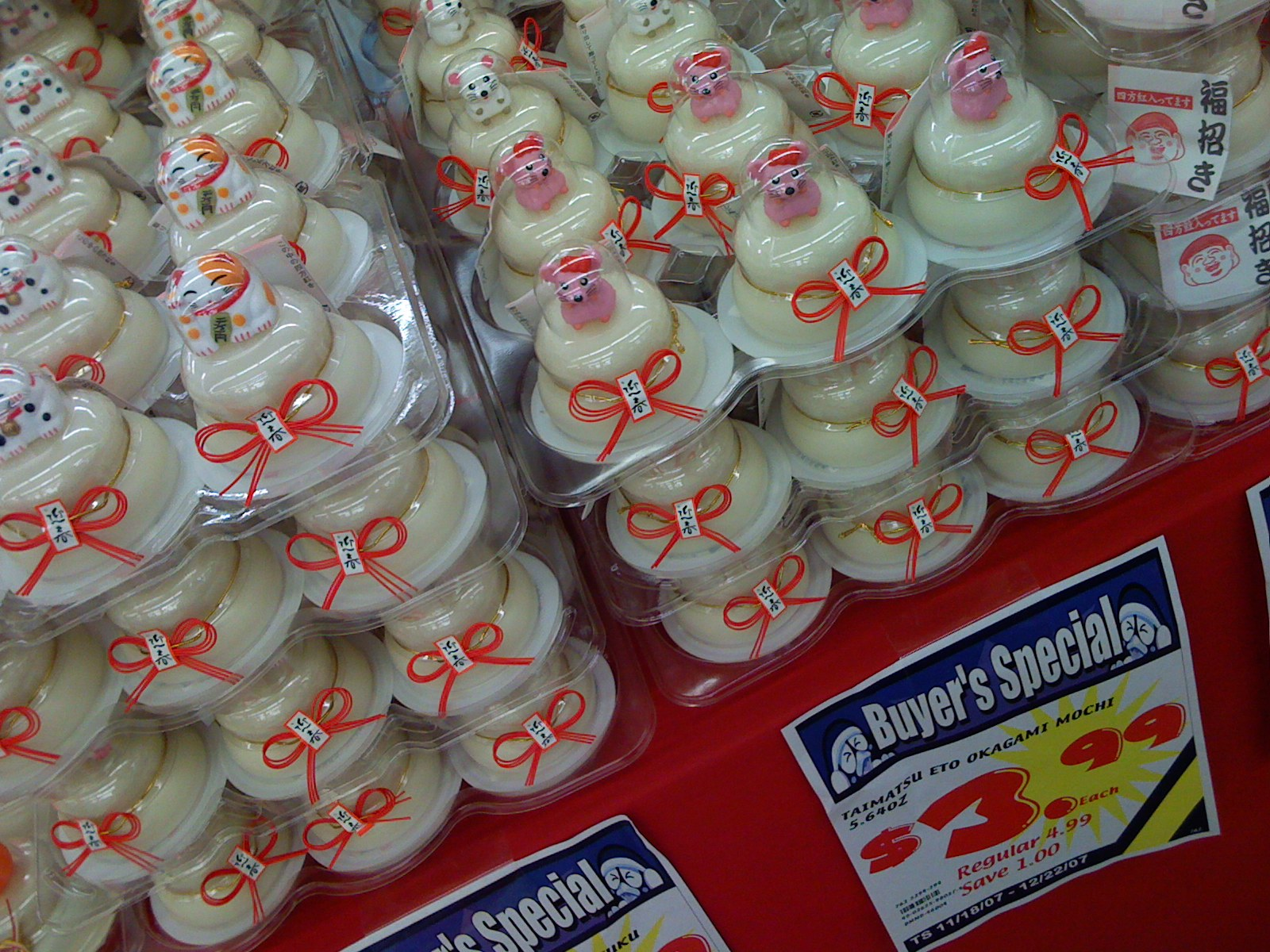 year-end sales at a discount price